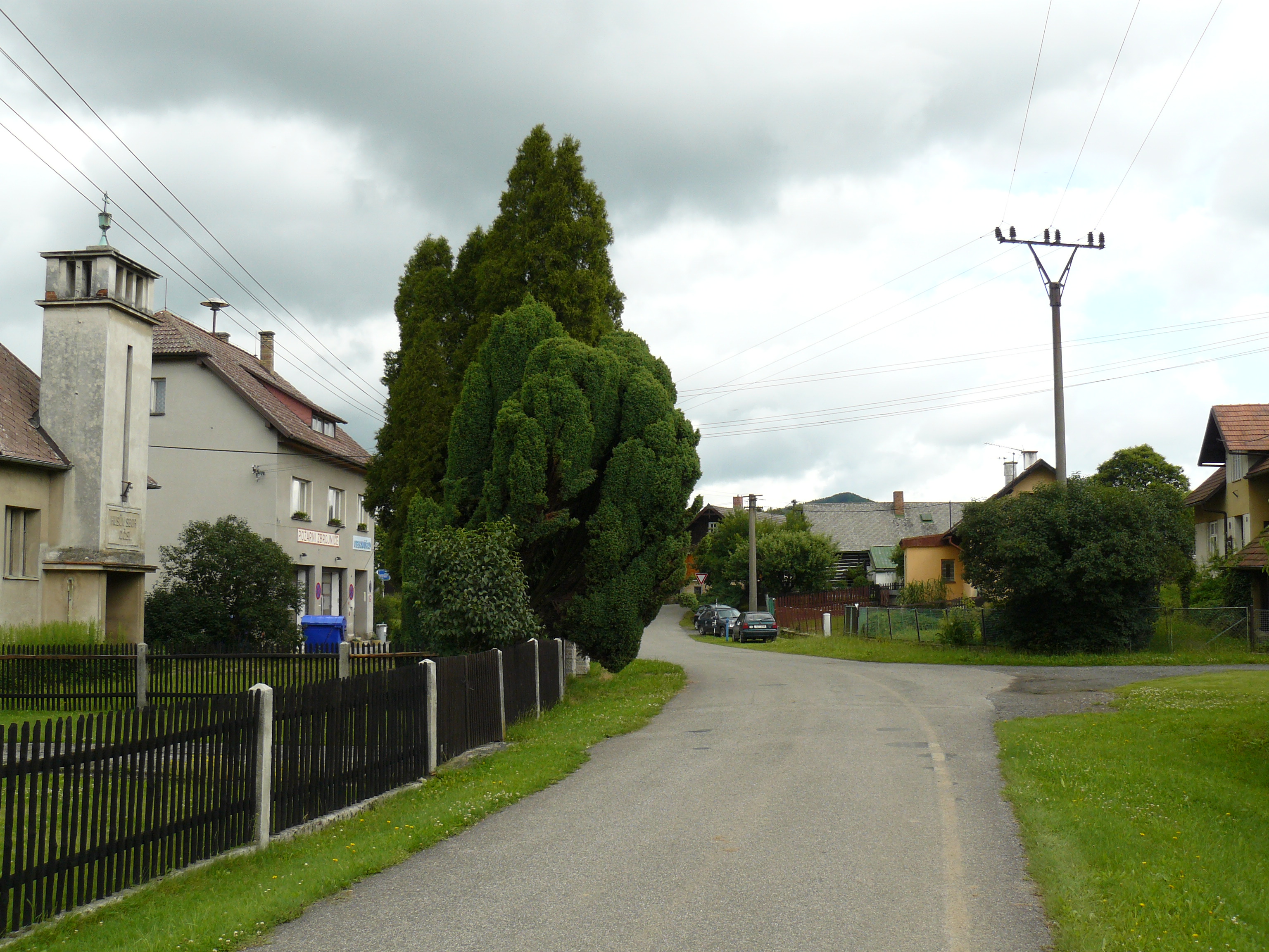 Mladějov - village in Czech Republic